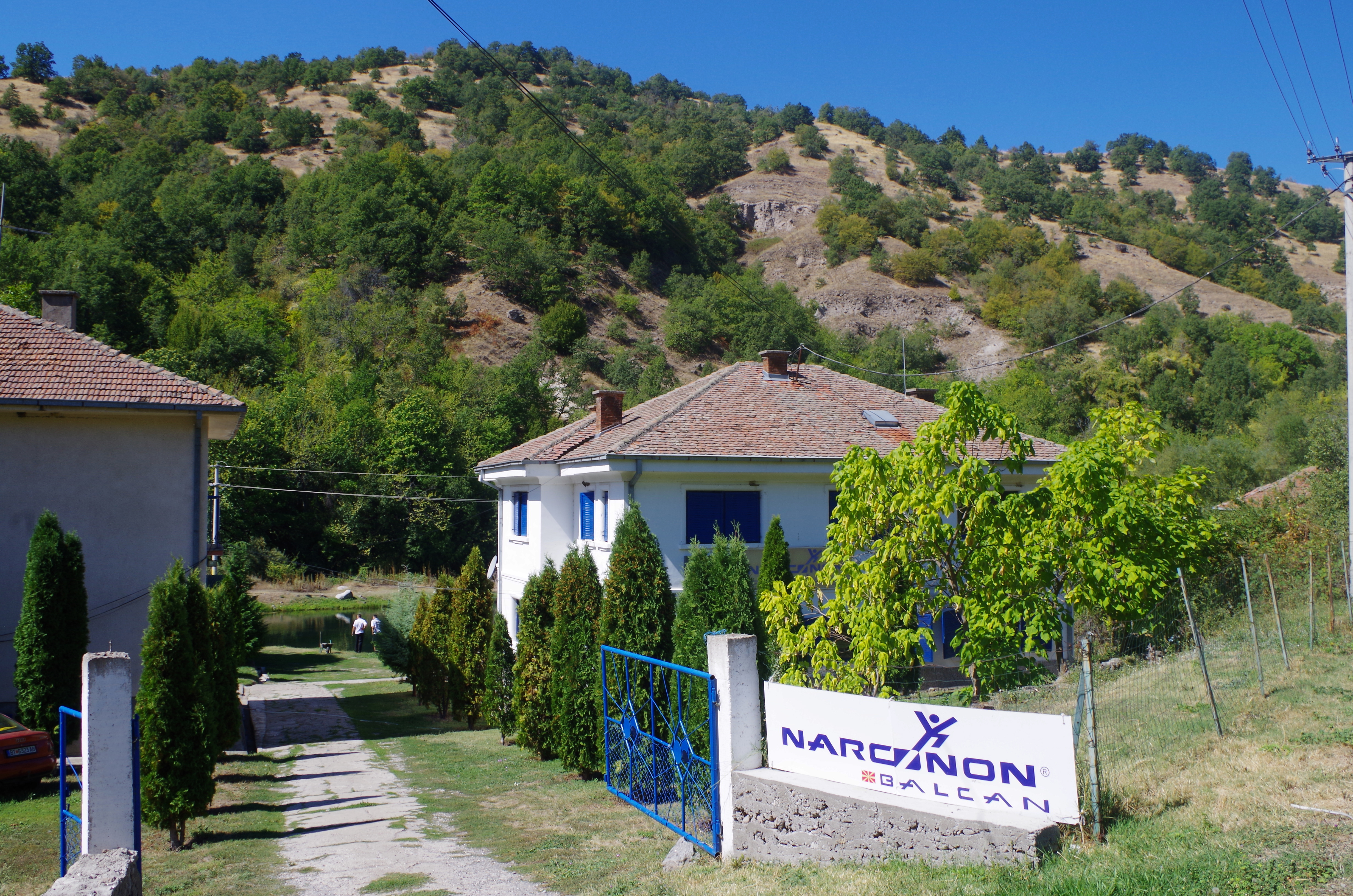 Centre for rehabilitation of drug addicts in the village of Konopište